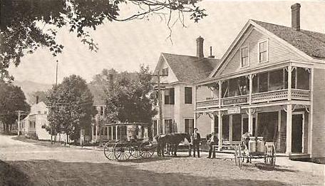 View of Piermont, New Hampshire. This shows the old store and post office.